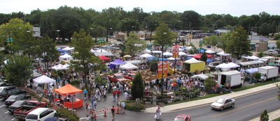 Market at the Square, Urbana, Illinois, United States.